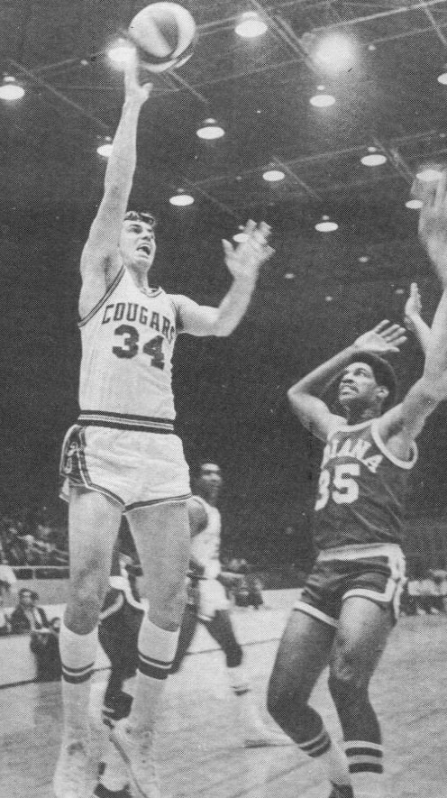 Professional basketball players Doug Moe (left) and Roger Brown (right)